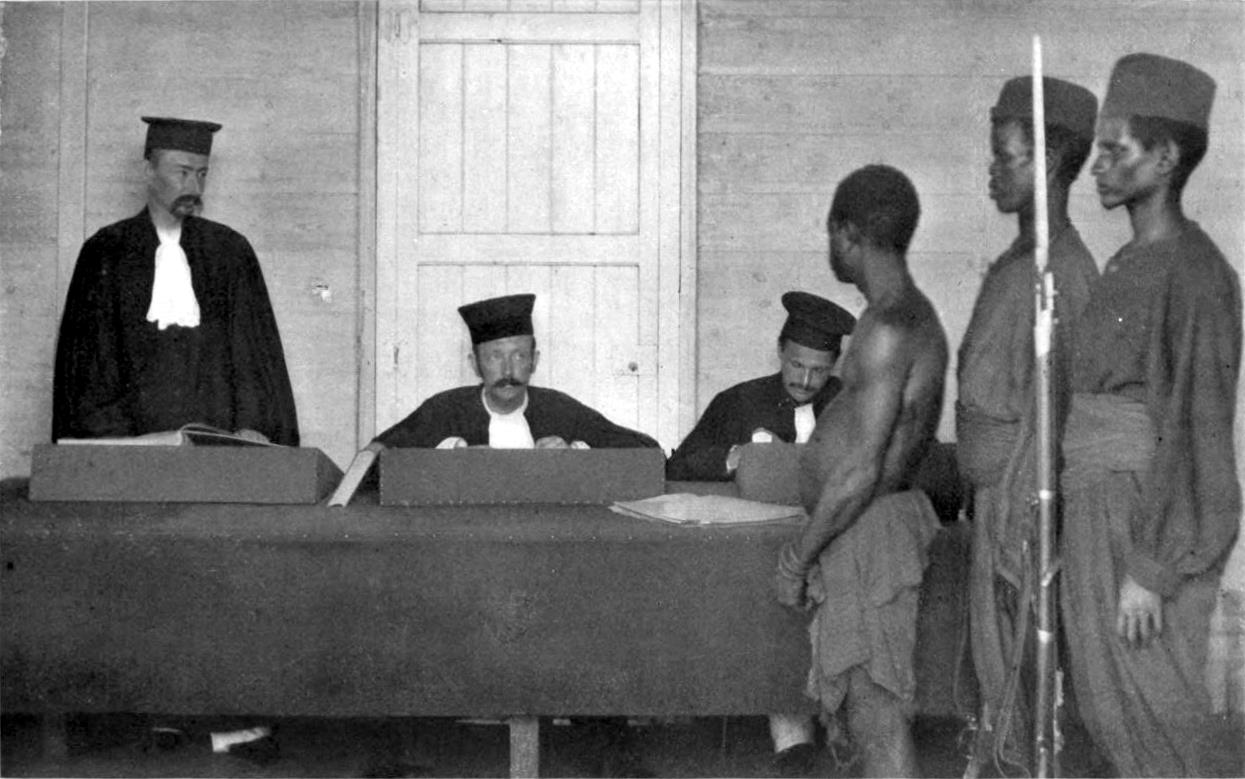 Tribunal at Boma. Sentencing a Native to Death for Cannibalism Committed in the Upper Congo - p. 156